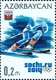 XXII Olympic Winter Games. Sochi - 2014. N 1131 - 20 qapik. Alpine skiing